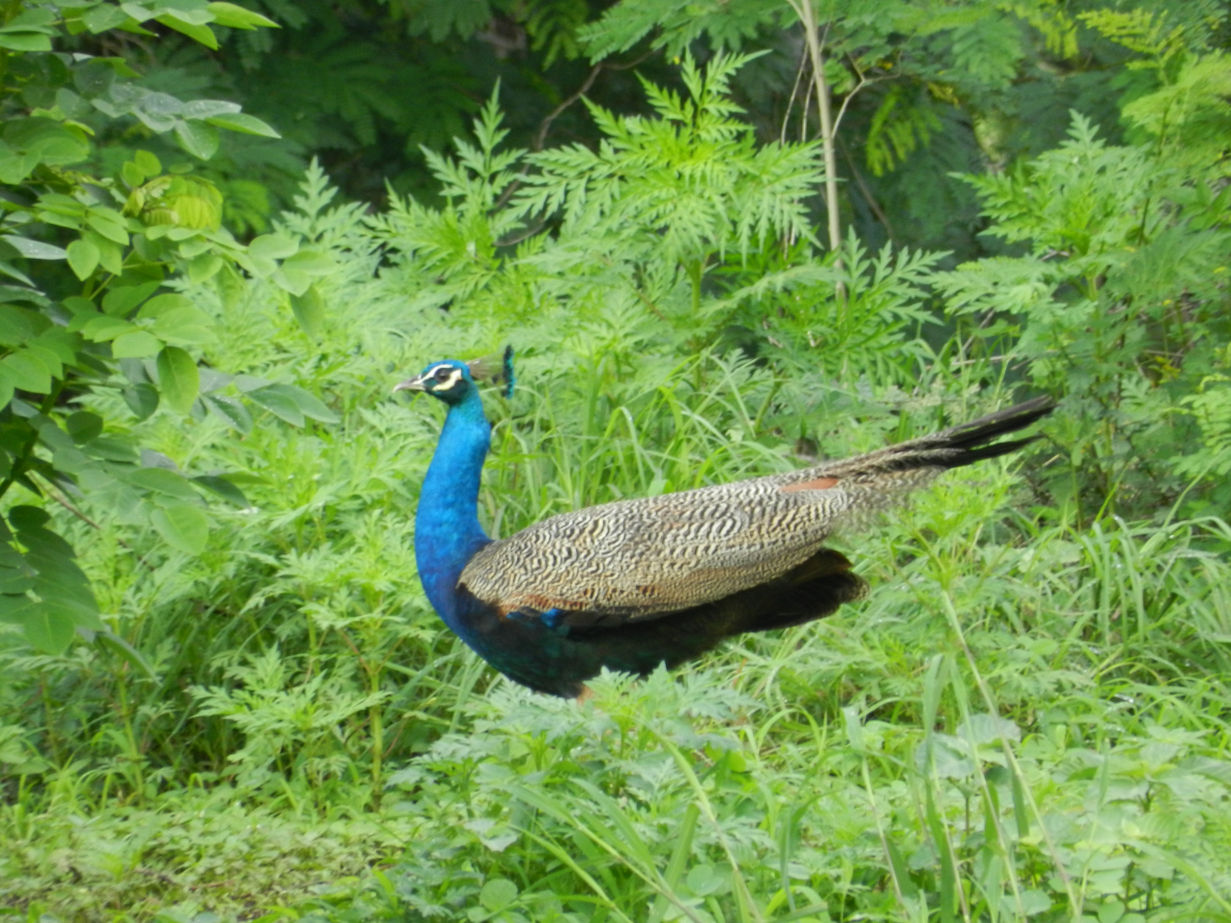 Peacock at Taljai Hill